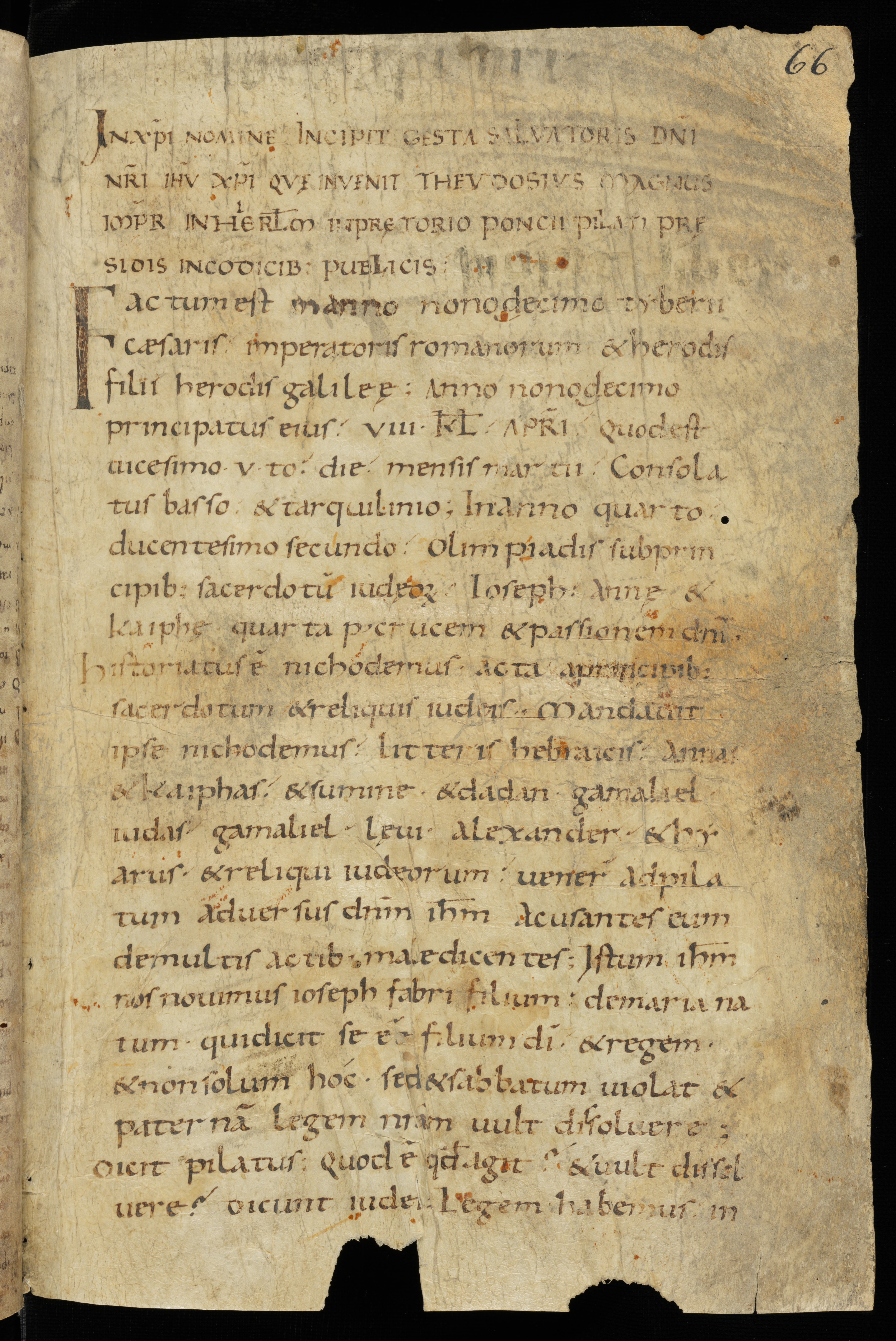 Evangelium Nicodemi (the Gospel of Nicodemus), a parchment from the 9th or 10th century.